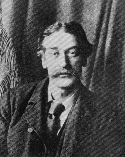 British psychical researcher Edmund Gurney.